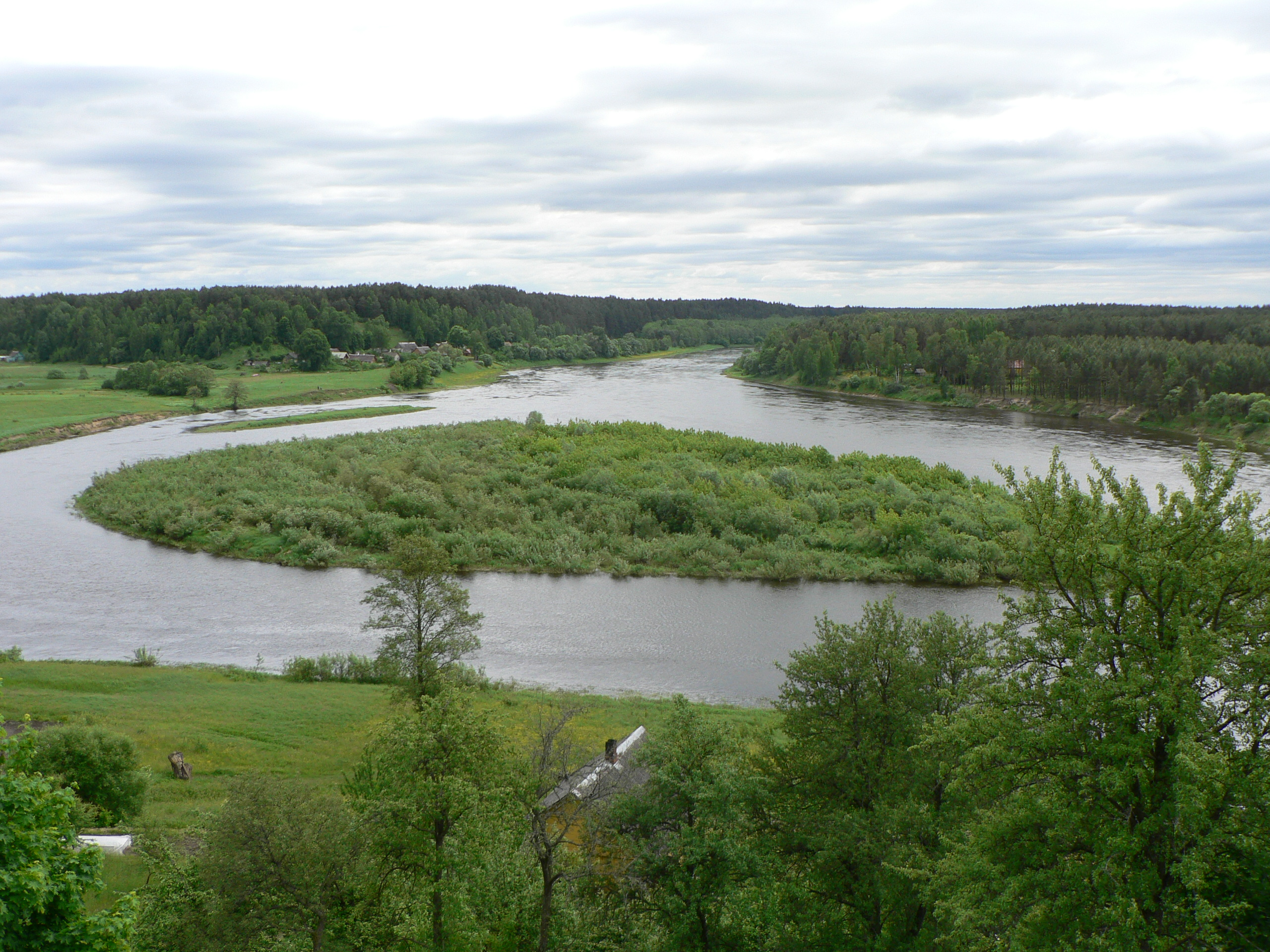 Bend of Neman river in Merkine, Lithuania. View from a hillfort.